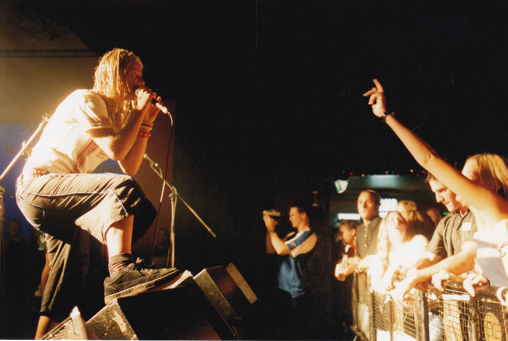 Laura G performing in Purrvert at the Grosvenor Hotel